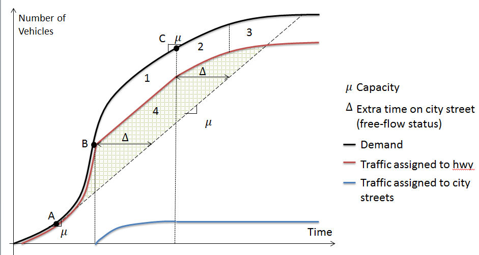 It describes the traffic assignment under the user optimum model.